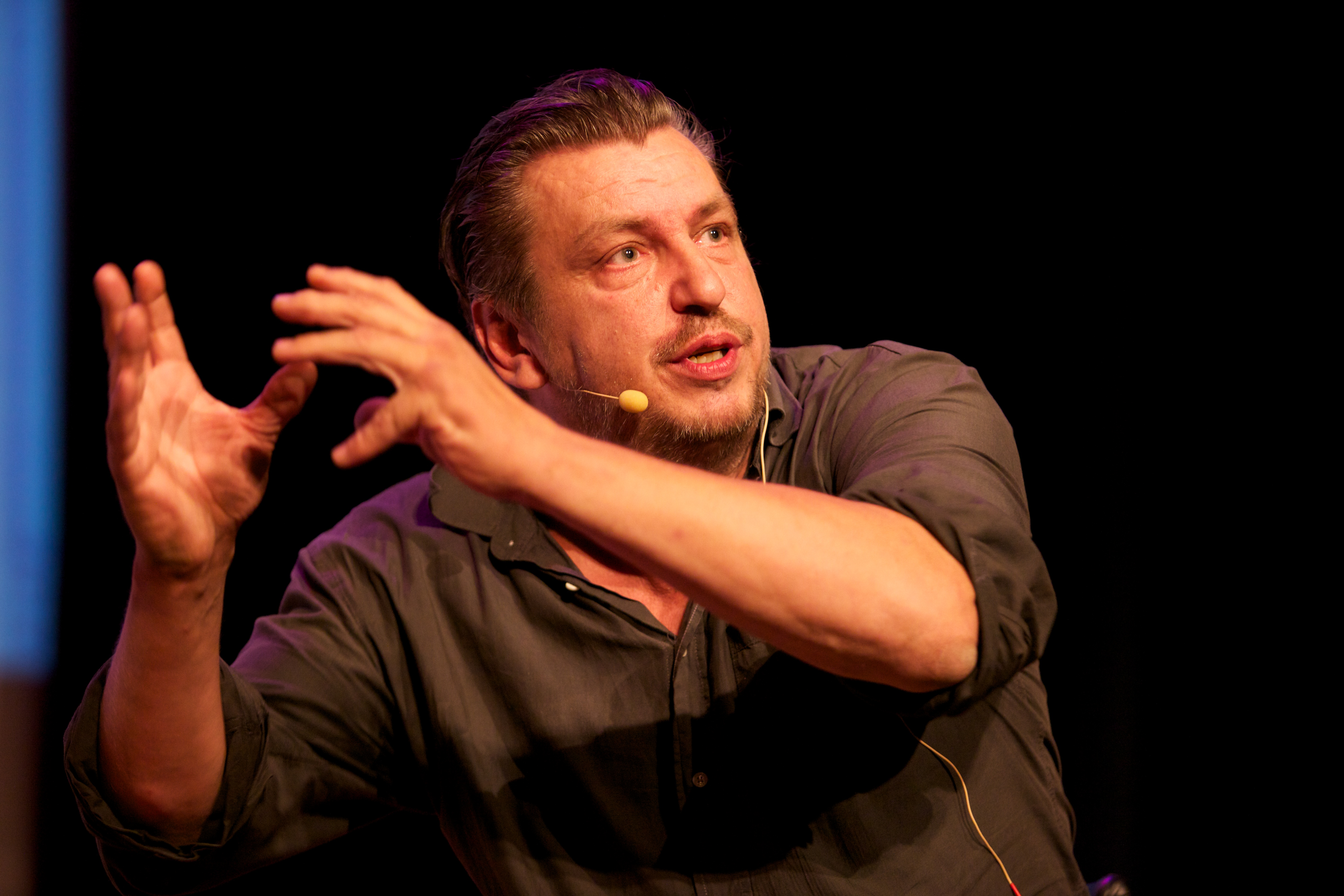 Dutch contemporary artist Rob Scholte during a lecture given as part of the incubate pirate conference in the midi theatre in Tilburg, the Netherlands